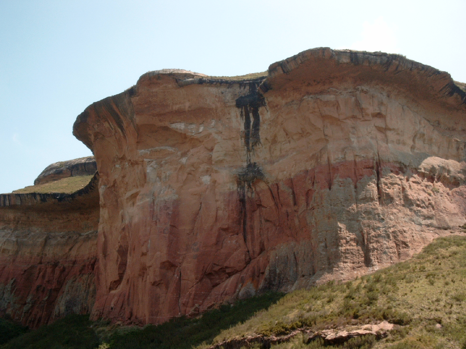 Rocks in Golden Gate NP, South Africa